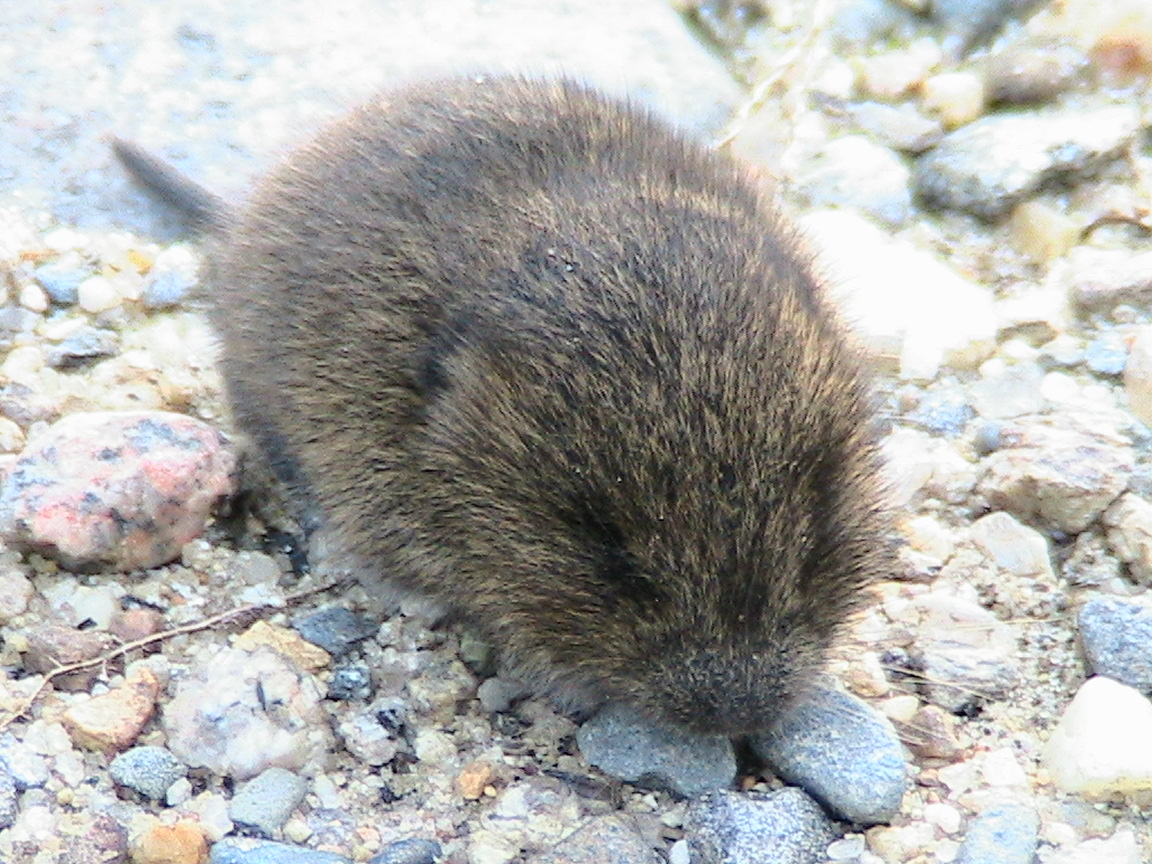 Baby Meadow Vole (Microtus pennsylvanicus) (Saco Factory Island, ME) - About the size of a half dollar